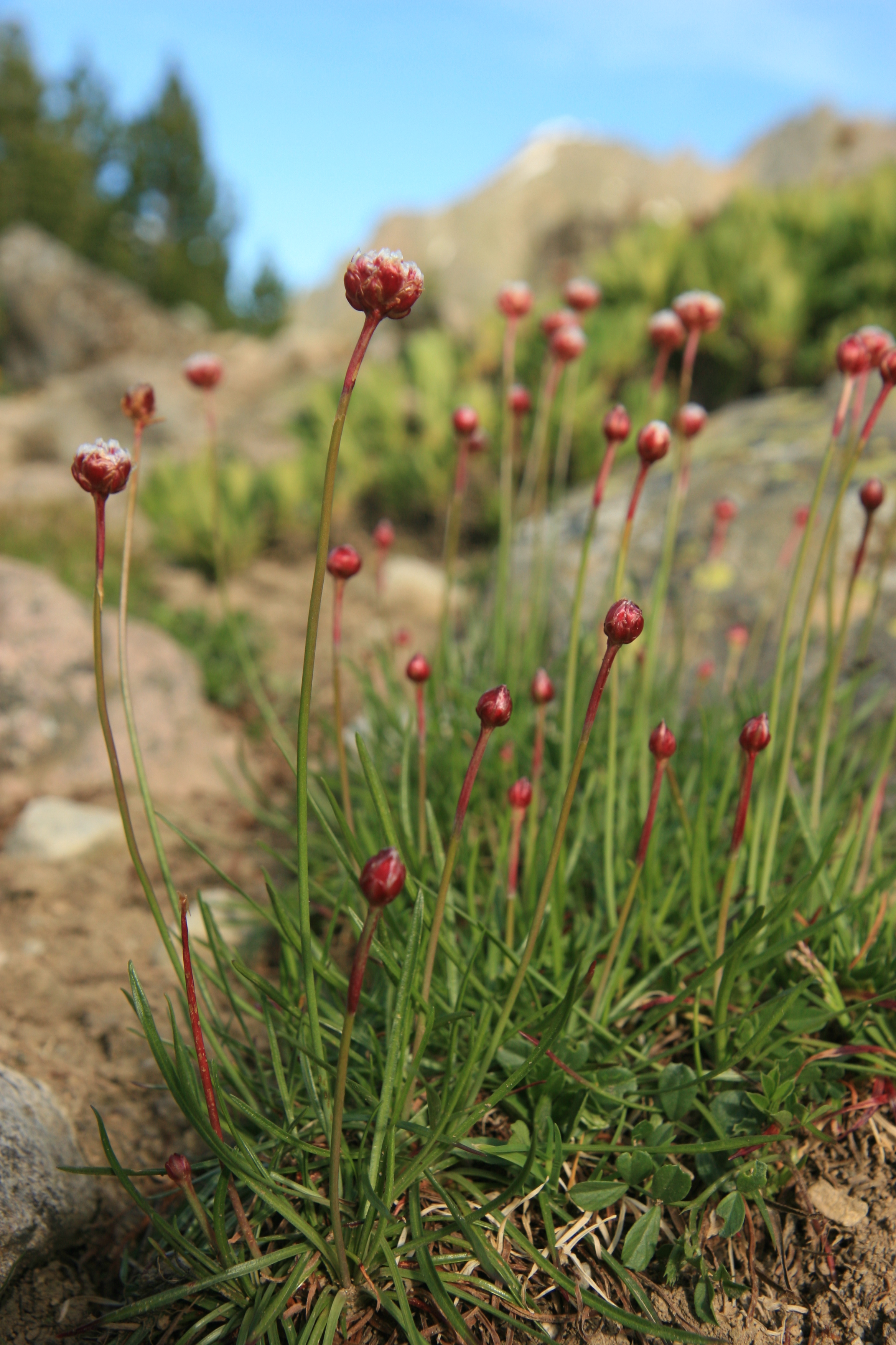 Armeria ruscinonensis in the Botanical garden of Pass of Lautaret (Hautes-Alpes, 05, France) This is an endemic of rocks and lawns Coastal Roussillon and Catalonia (France and Spain).